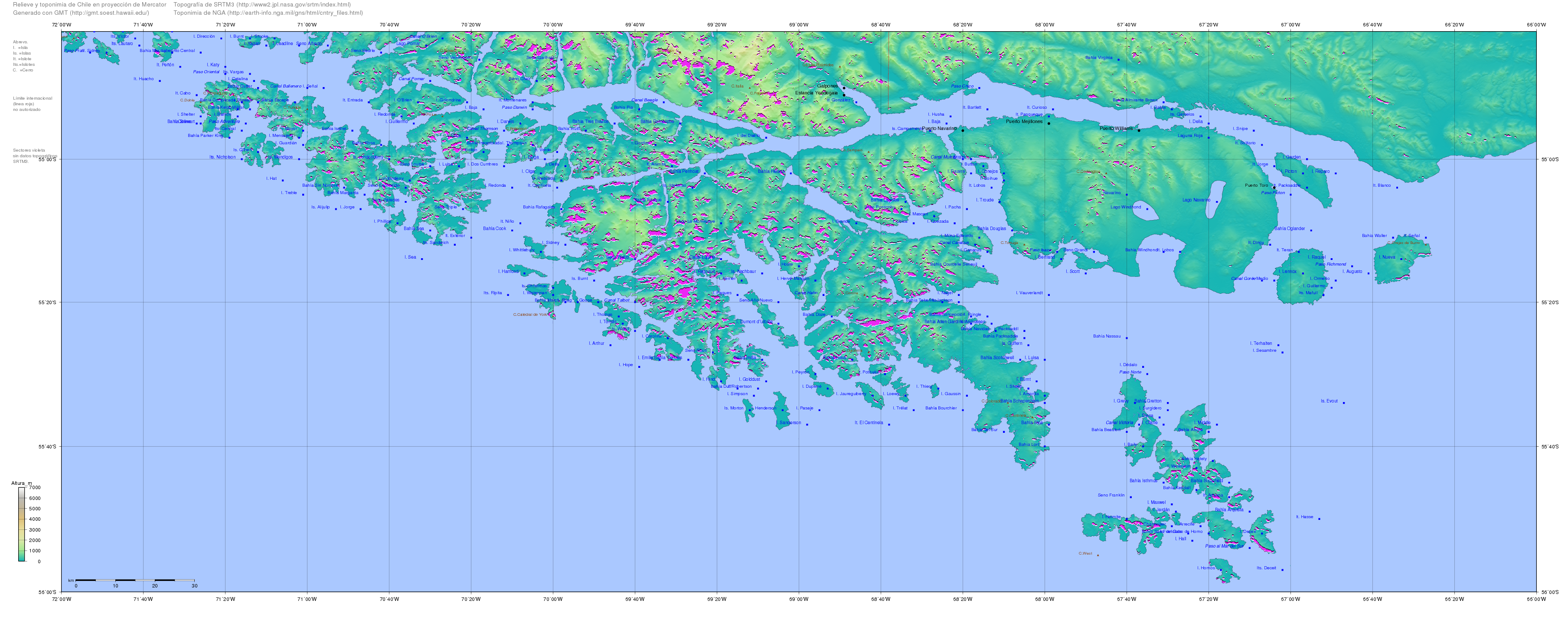 Map of Chile generated with GMT ( topography from SRTM ftp://e0srp01u.ecs.nasa.gov/srtm/version2/SRTM3/ and toponymy from